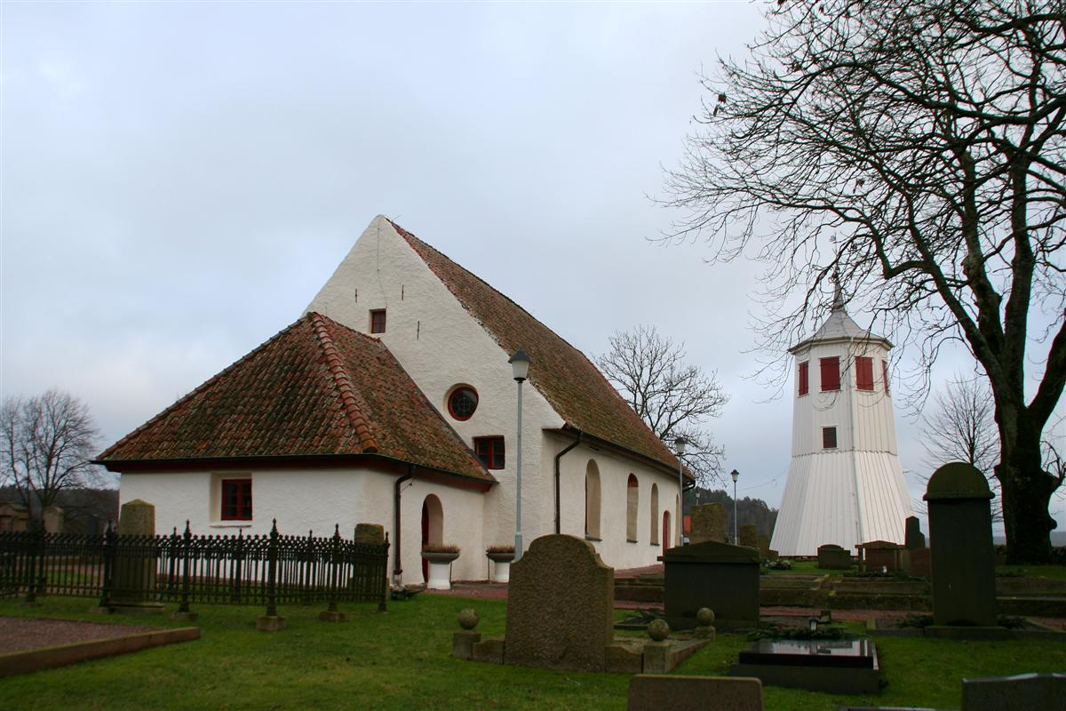 Älvsåker Church